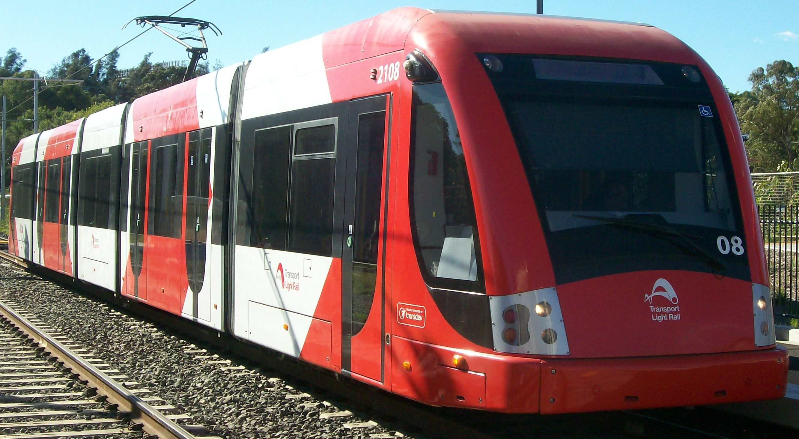 CAF Urbos 2 Sydney Light Rail